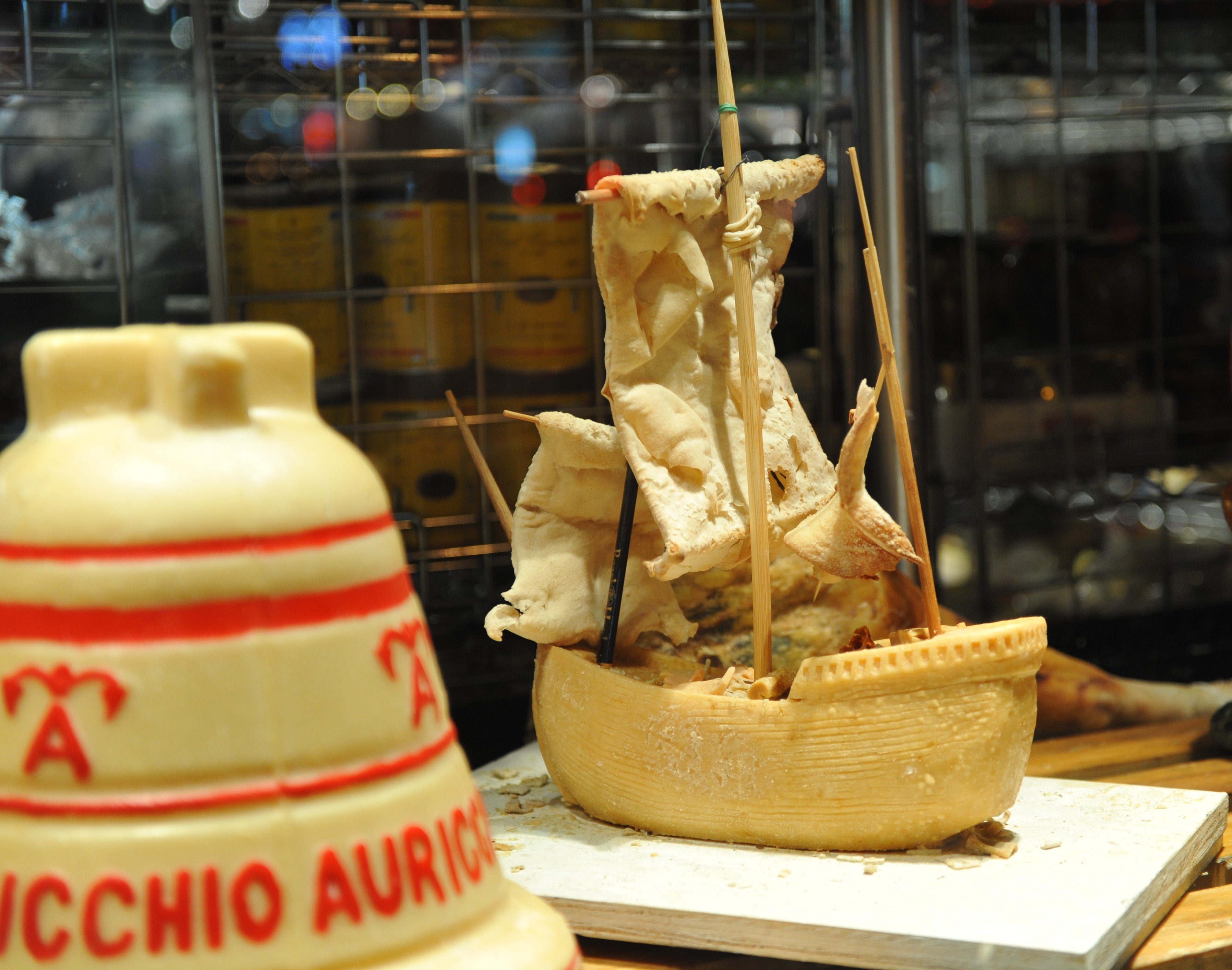 Sculptures Parmesan showcase Little Italy NYC